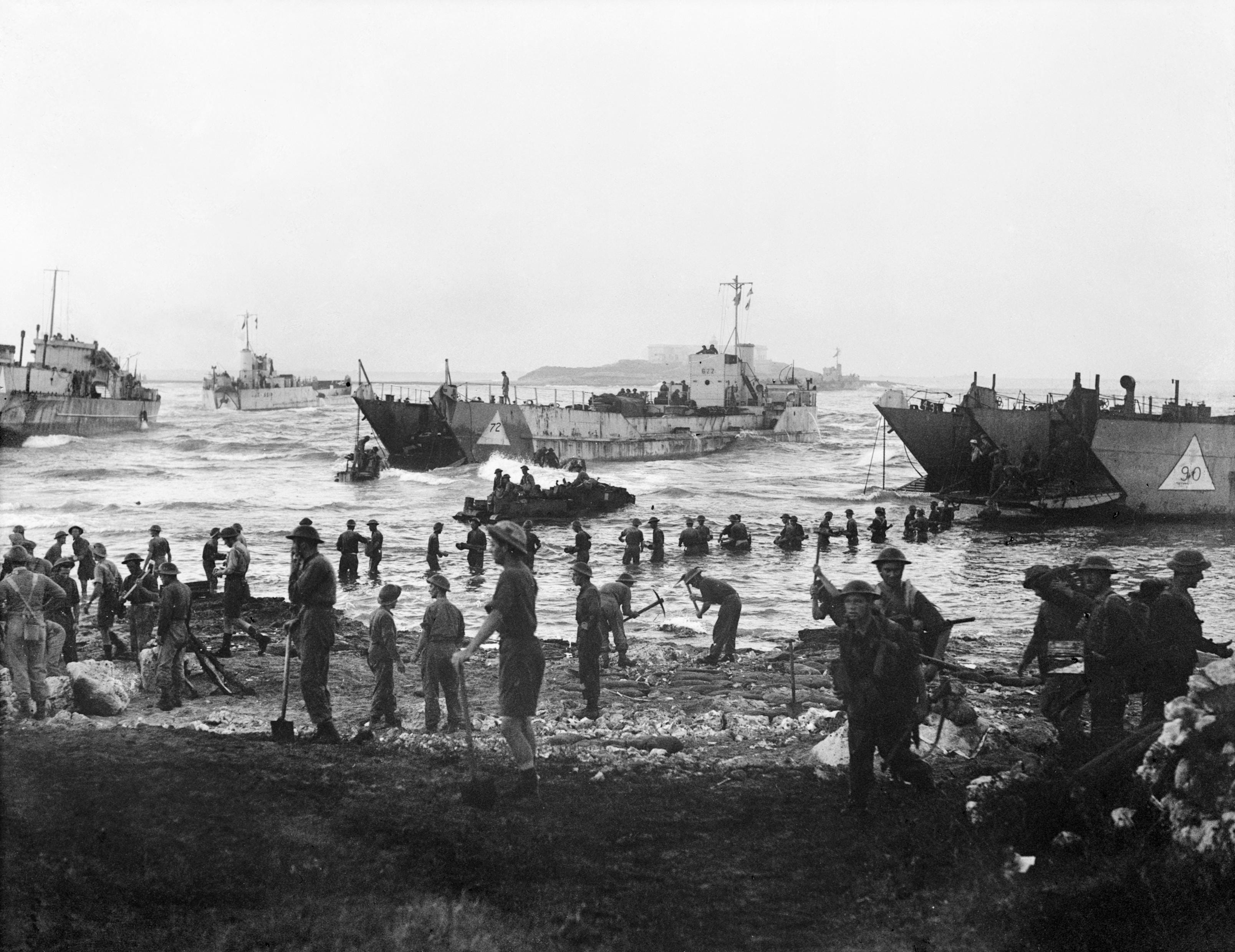 Just after dawn, men of the Highland Division up to their waists in water unloading stores on a landing beach on the opening day of the invasion of Sicily. Meanwhile beach roads are being prepared for heavy and light traffic. Several landing craft tank can be seen just of the beach (including LCT 622). 10 July 1943.